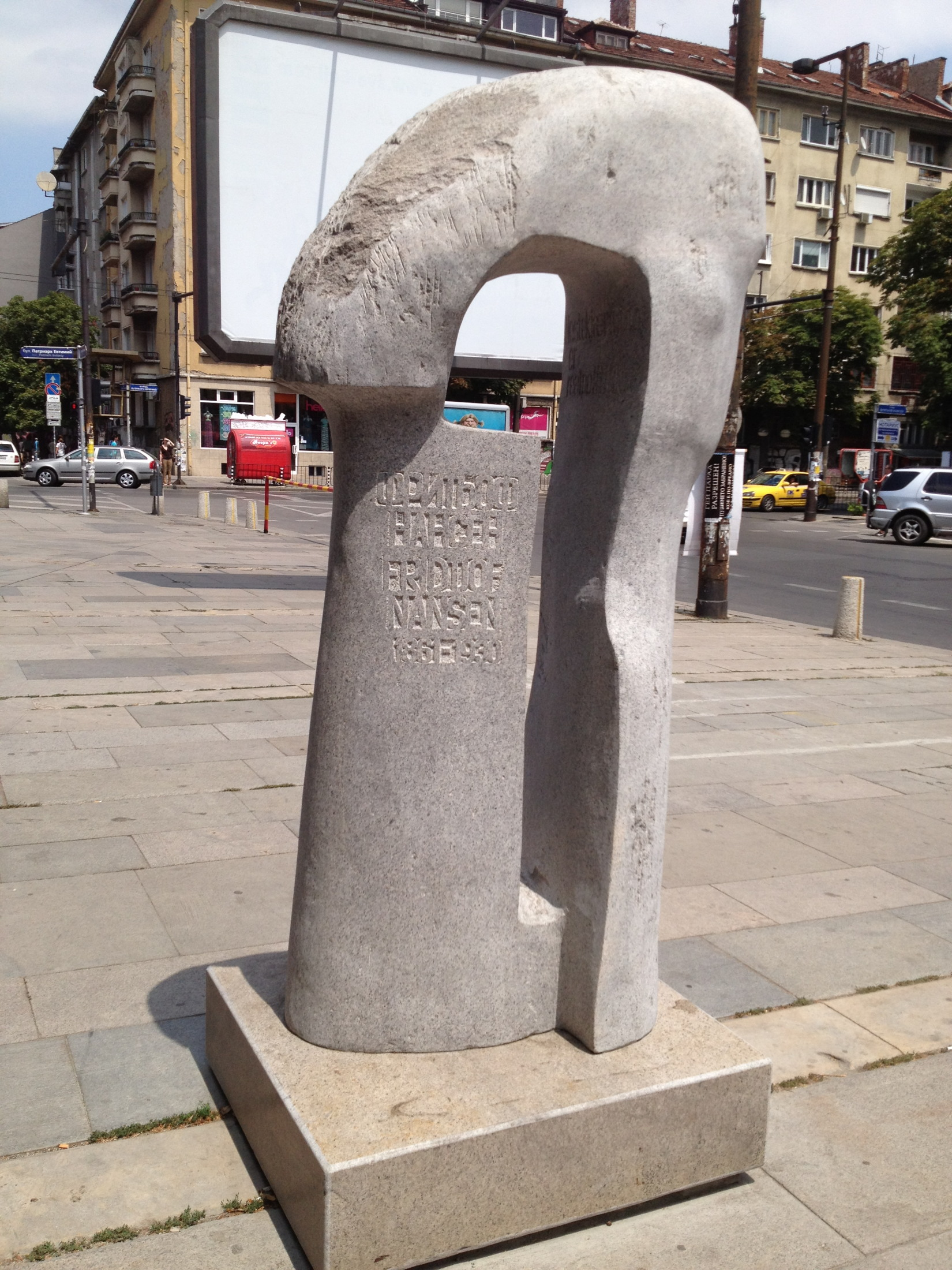 Fridtjof Nansen's monument in downtown Sofia, Bulgaria.